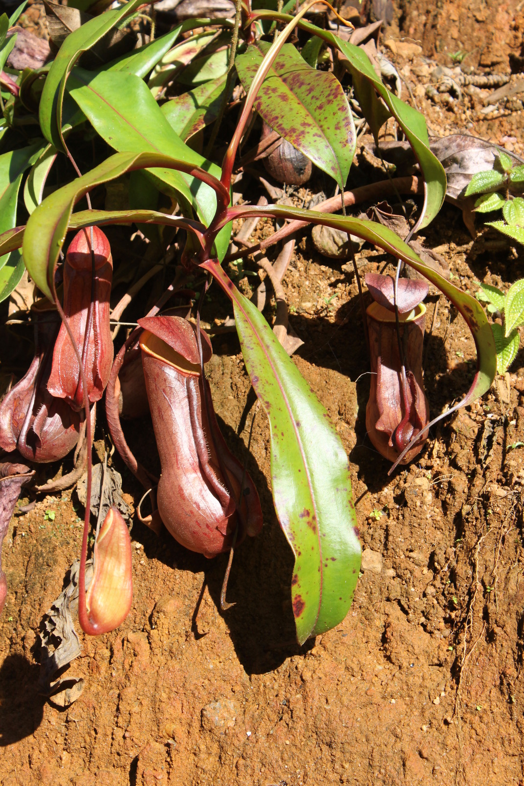 Nepenthes distillatoria, Sinharaja Forest Reserve, Sri Lanka